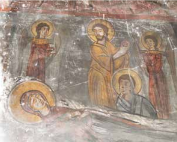 Dormition of the Virgin (detail), Kërçisht e Sipërmë, Church of the Ascension, western wall I half of the XVI Century